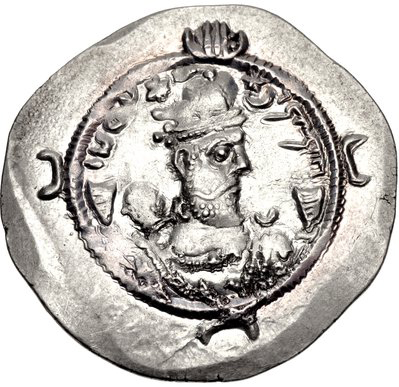 Coin of Bahram Chobin, also known as Bahram VI.